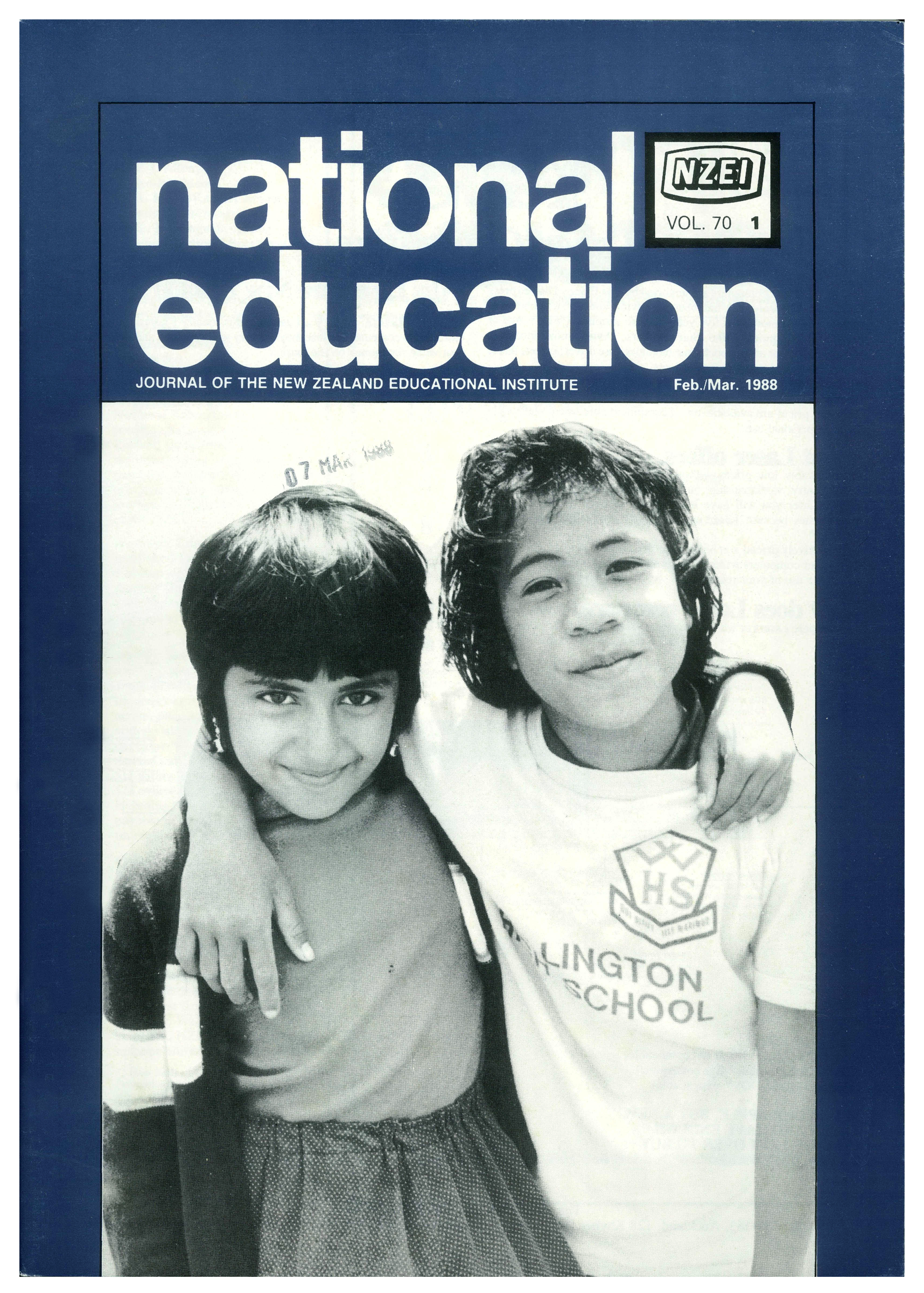 5 October is World Teachers' Day! On this day across the globe, groups celebrate the role of teachers and teachers' organisations, mobilise support for teachers, and ensure that the needs of future generations will continue to be met by teachers. As UNESCO notes, World Teachers' Day is a way to show appreciation for the vital contribution that teachers make to education and development. One organisation that has done just this for over 130 years is the New Zealand Educational Institute (NZEI). The NZEI was formed in Christchurch in 1883, after a meeting was called to promote the interests of teachers, to take joint action should a teacher be unfairly dealt with, and to promote a higher standard of education. The Institute has been an effective voice for teachers and for education ever since. You can find out more about the history of the NZEI at their website: They also have a digital heritage collection of photography, posters and journals online here: .nz/ This is the cover of the Feb/March 1988 edition of 'National Education', the NZEI journal published between 1919 to 1989. It comes from the personal papers of ex-Prime Minister Robert Muldoon. Archives Reference: AAXO 22539 W4246 Box 41 More on World Teachers' Day events can be found at For updates on our On This Day series and news from Archives New Zealand, follow us on Twitter Material from Archives New Zealand